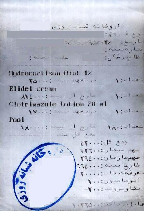 A pharmacy bill in Tehran. Technical right (in Persian: حق فنی) can be seen with the price of 2000 Tomans. As the image only includes letters and numbers, it is not eligible for copyright and is in public domain.